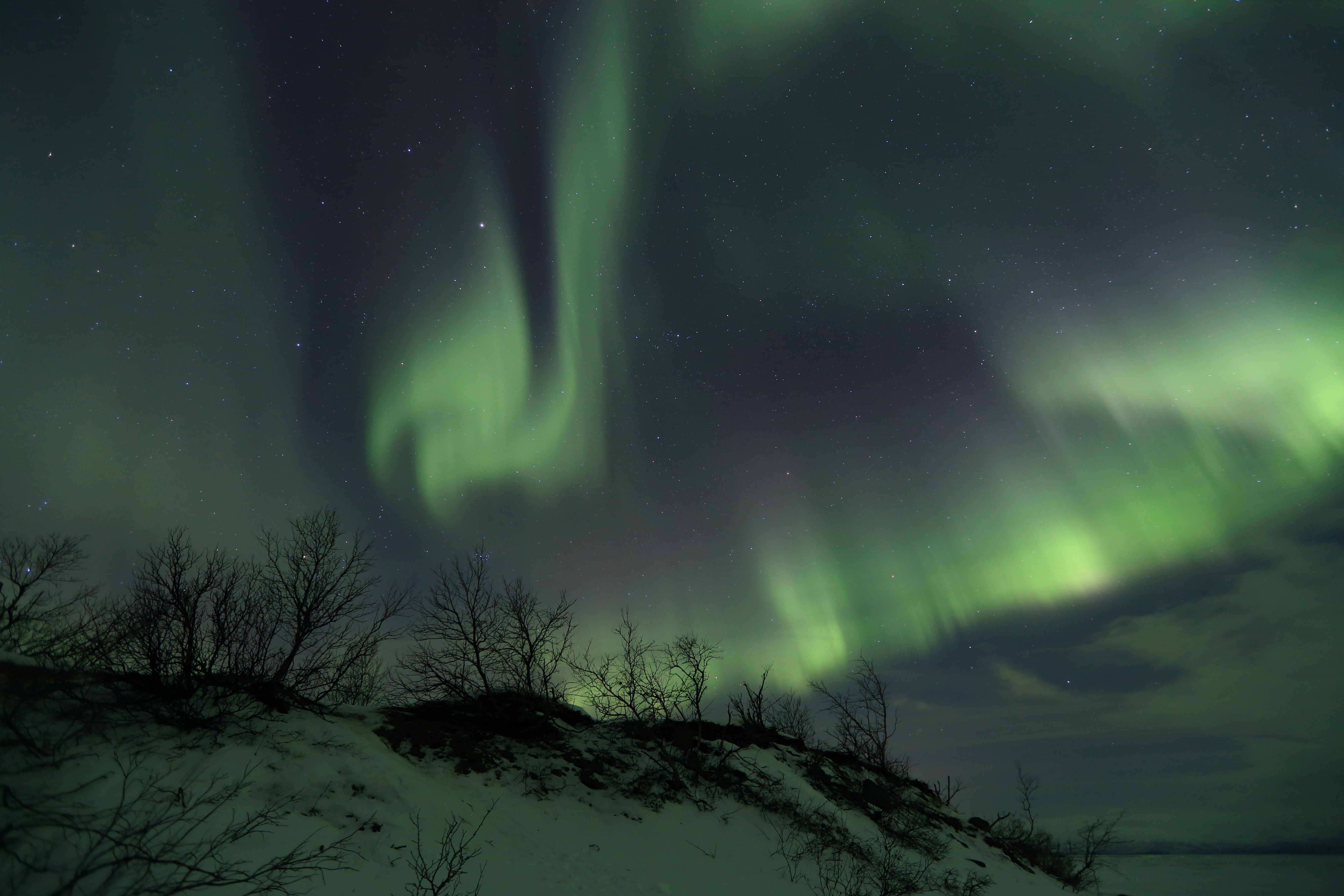 Aurora borealis in Abisko National Park near Torneträsk lake in Sweden.